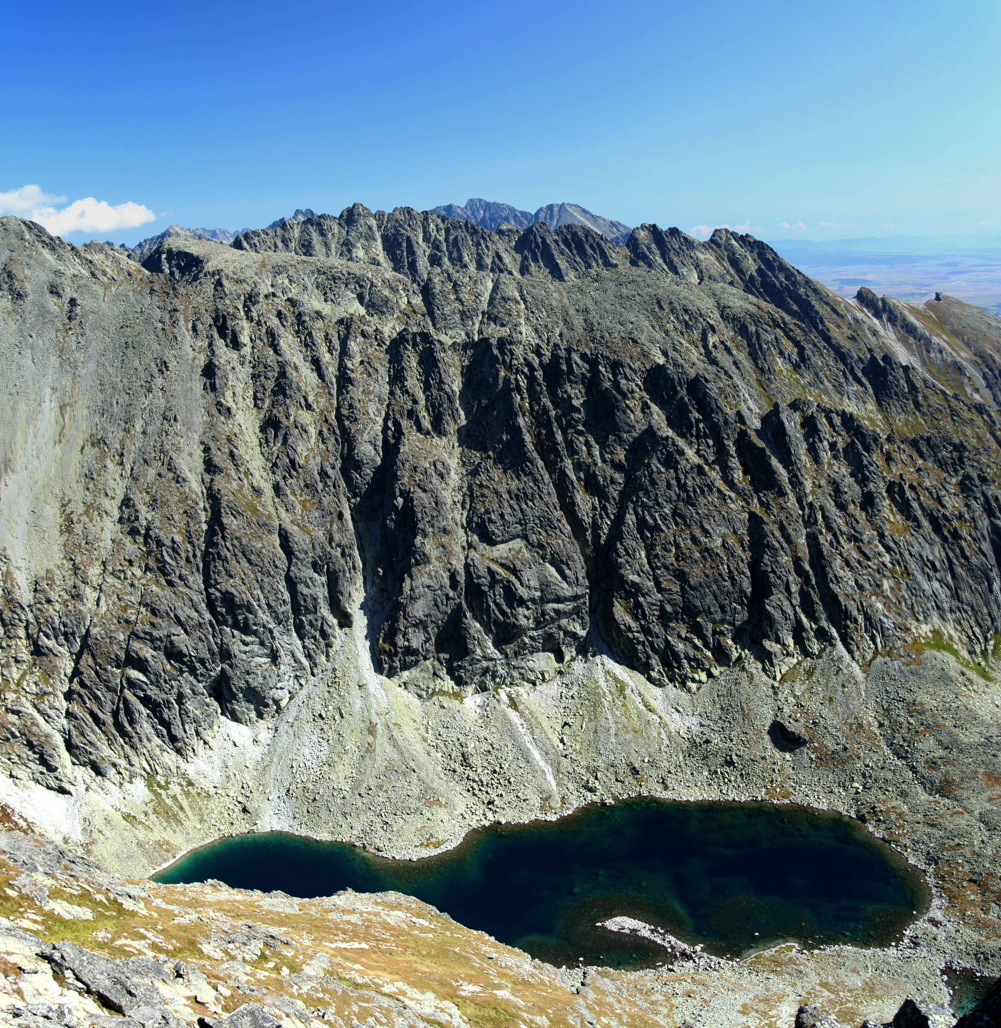 Krivánske Zelené pleso, view from Maly Kiváň, Slovakia.